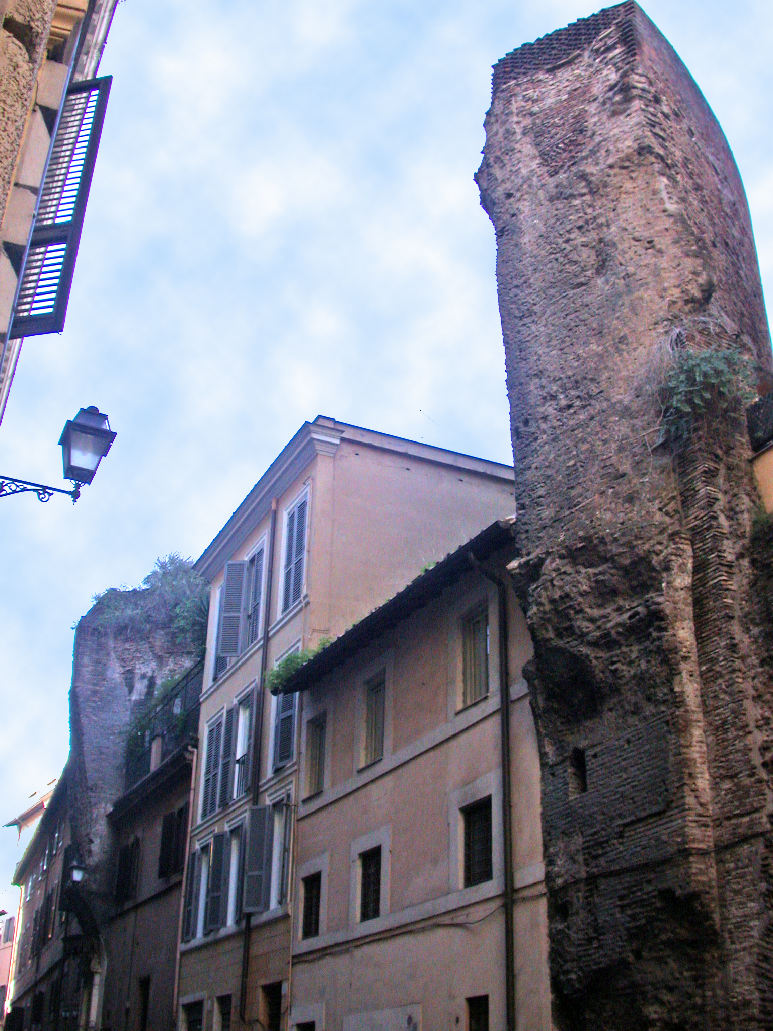 Ruins of ancient Agrippa's baths near Pantheon (circular hall with inside Renaissance houses, hall called "ciambella", and so the street name is "via dell'arco della Ciambella"). Personal photo (november 2005) by MM in it.wiki